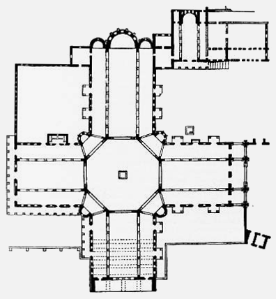 Plan of the Church of Kalat-Seman. (Illustration from Encyclopædia Britannica Eleventh Edition, 1911, article Architecture)